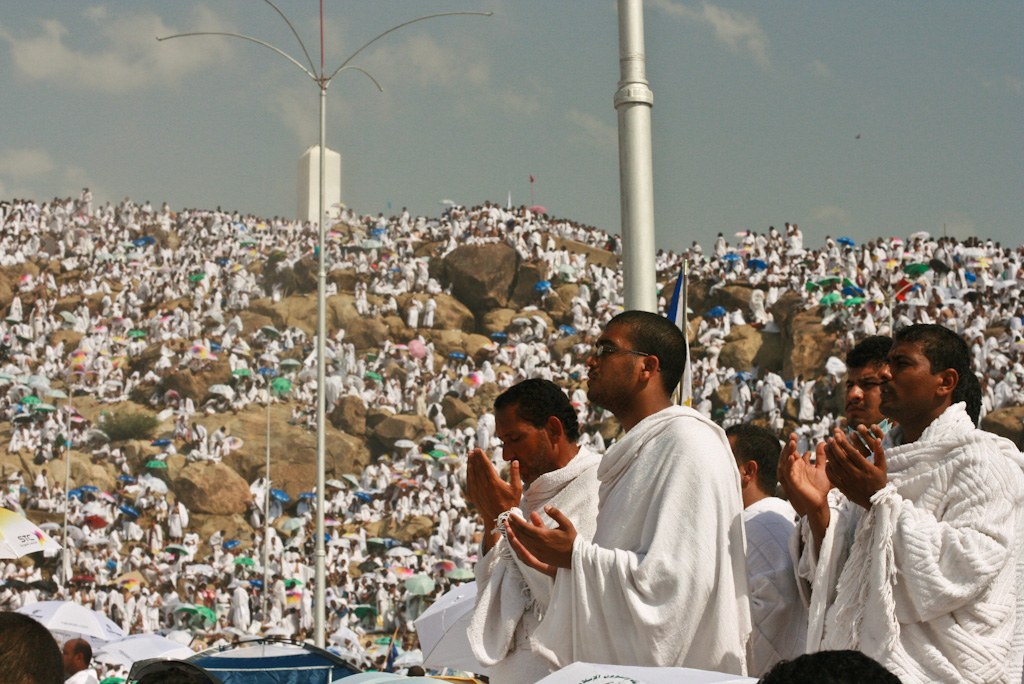 Photo by Omar Chatriwala